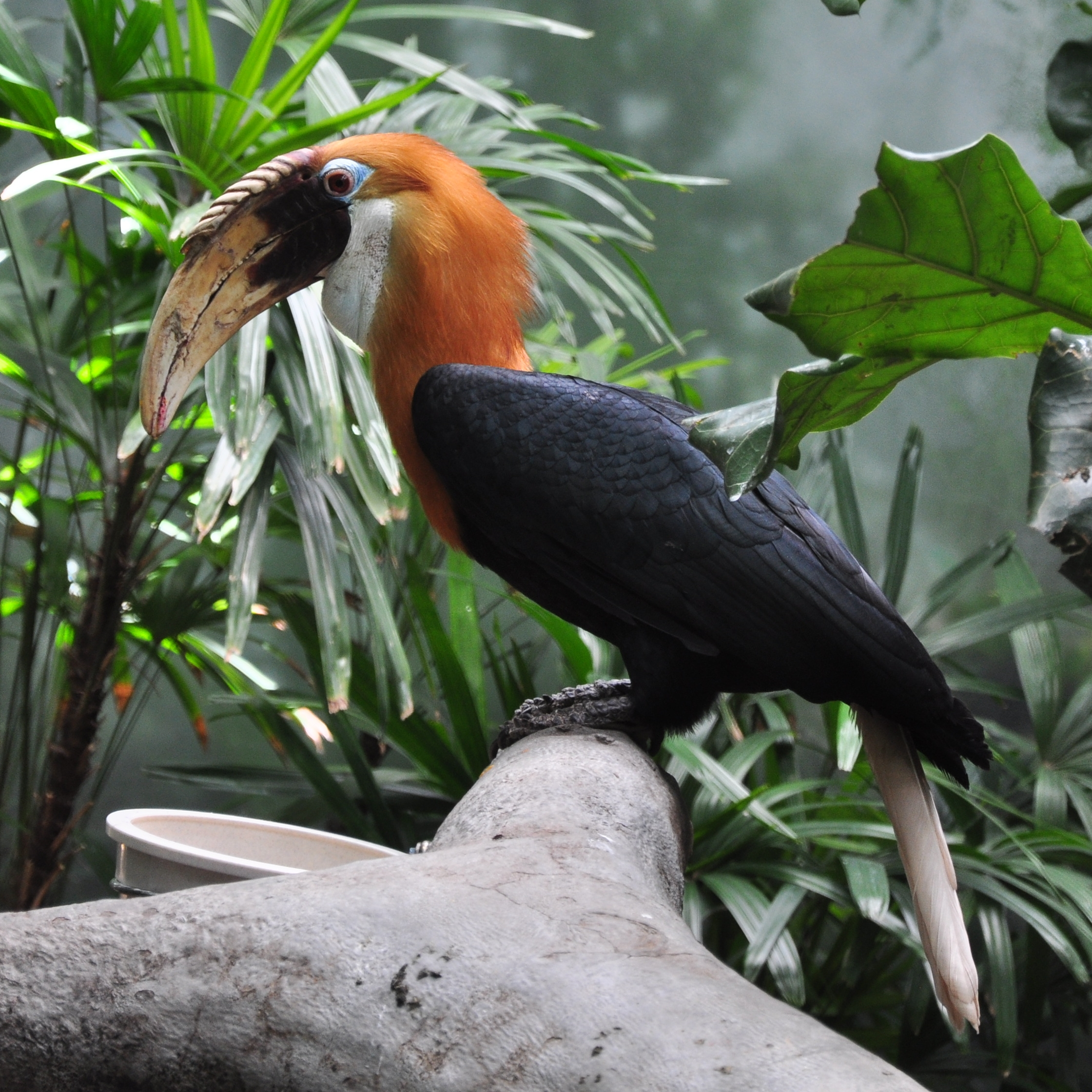 A male Papuan Hornbill (also known as Blyth's Hornbill) at Lincoln Park Zoo, Chicago, USA.